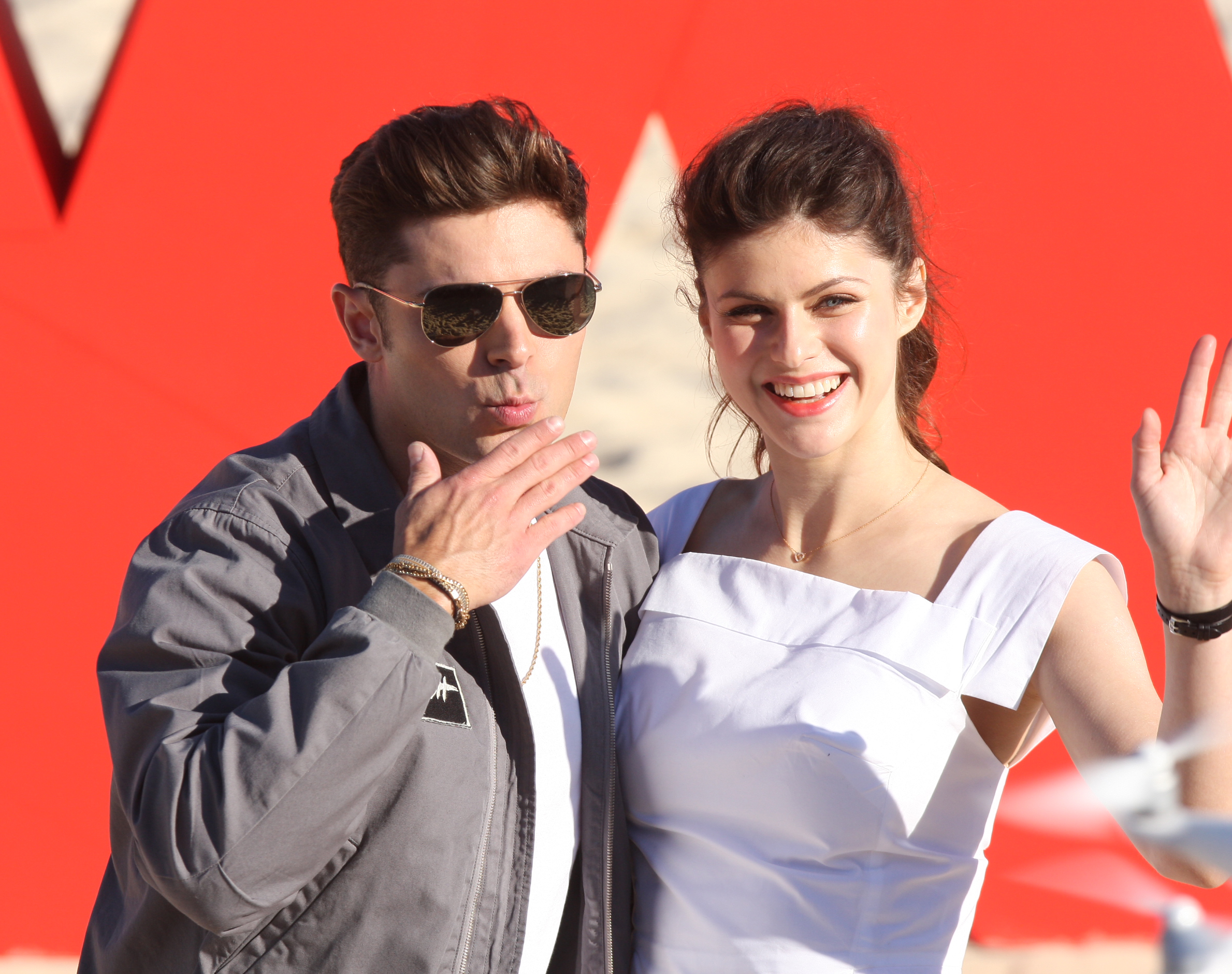 Zac Efron and Alexandra Daddario at the Baywatch launch.